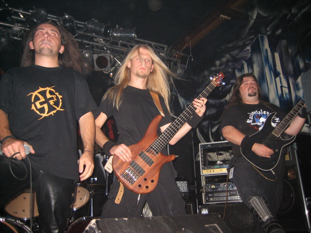 on picture Trauma polish death metal band